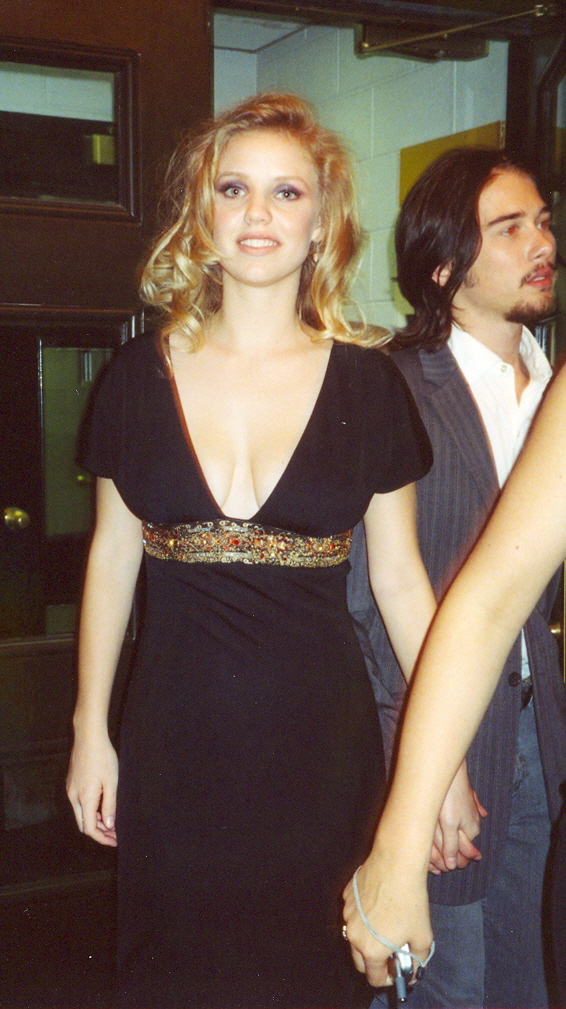 Kelli Garner at the 2005 Toronto Film Festival promoting Thumbsucker